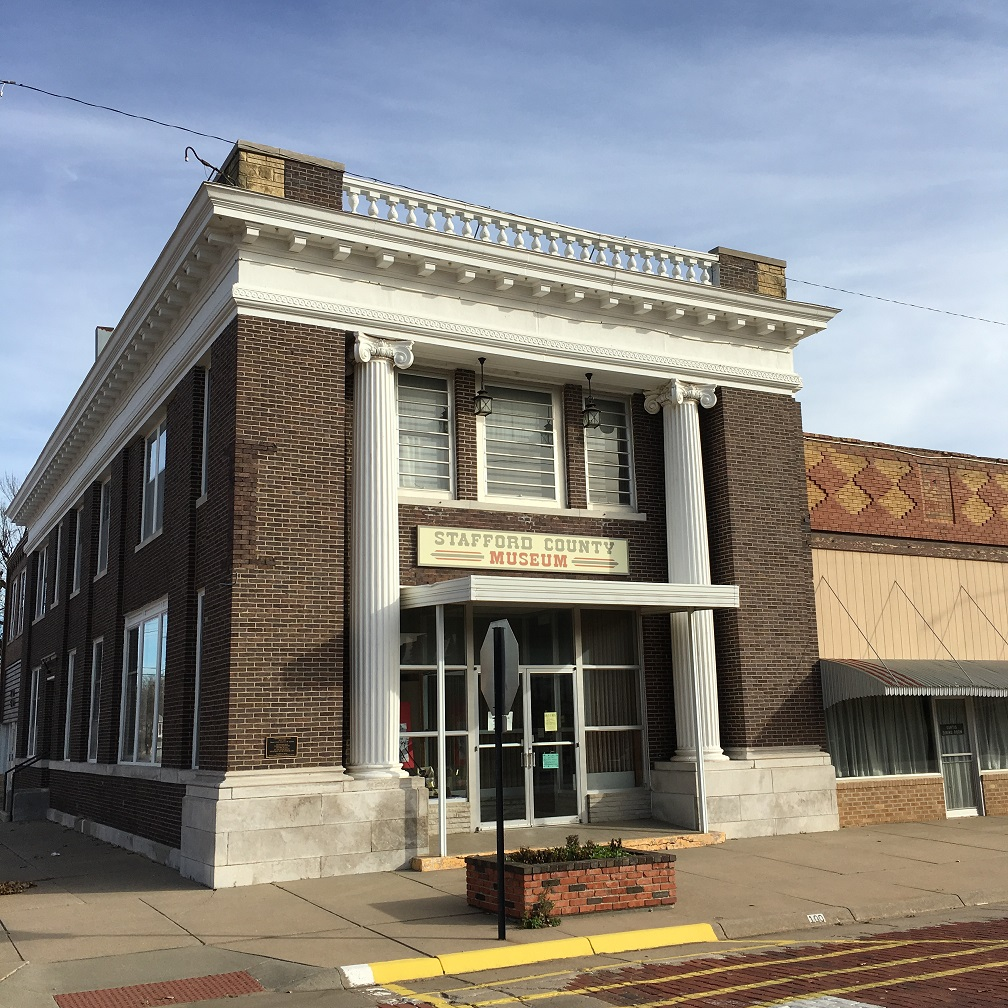 Farmers National Bank Site currently houses a local museum.